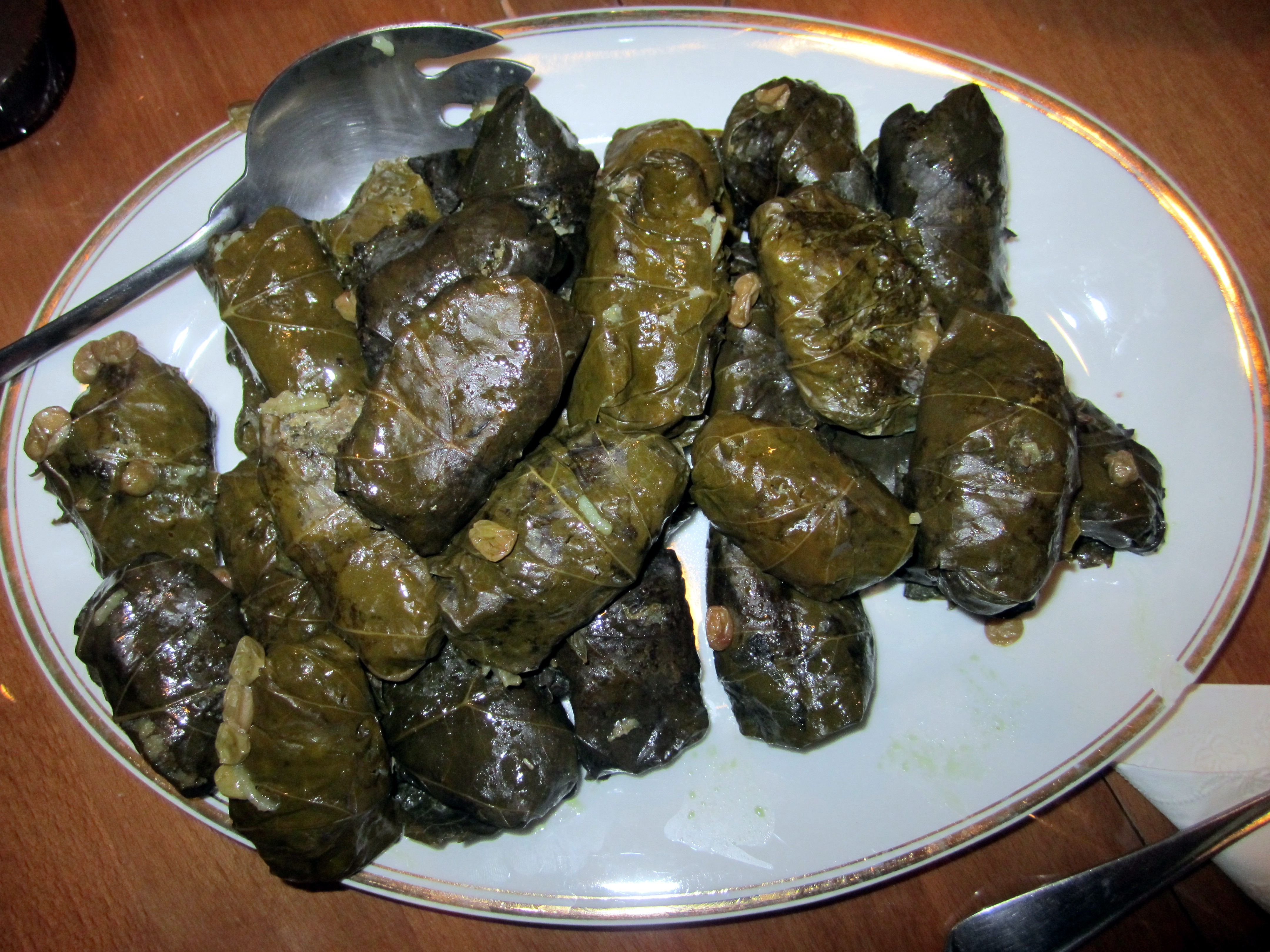 Vine-leaf dolma